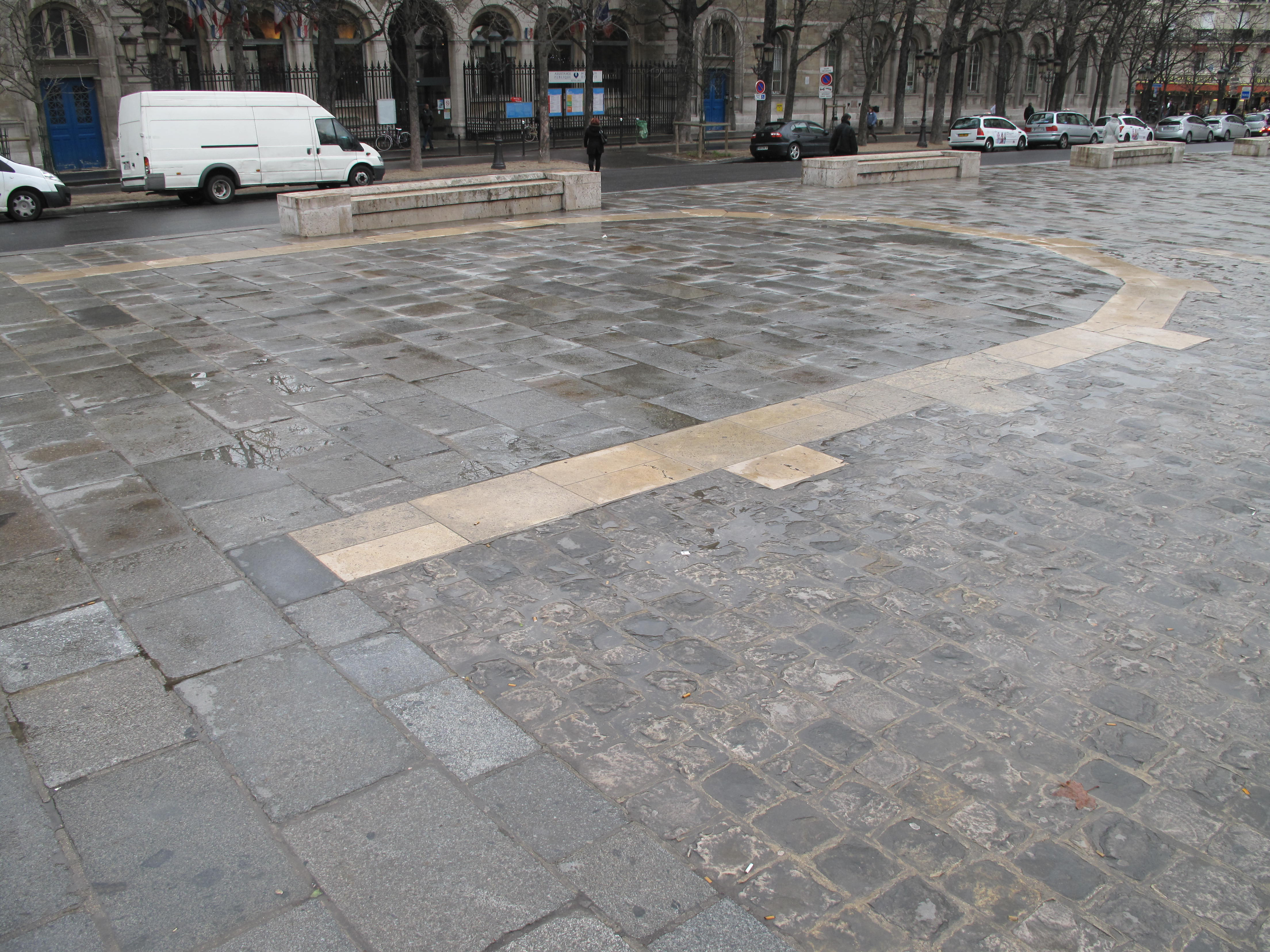 On the parvis of the cathedral Notre-Dame, place of the former church Sainte-Geneviève des Ardents, destroyed during Haussmann works. Paris 4th arr.